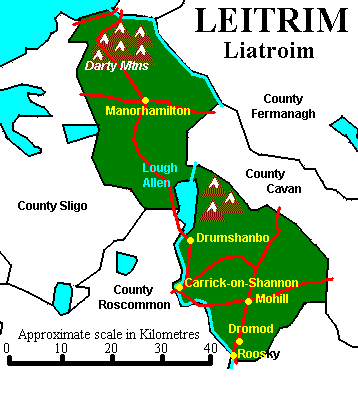 Map of County Leitrim, Ireland